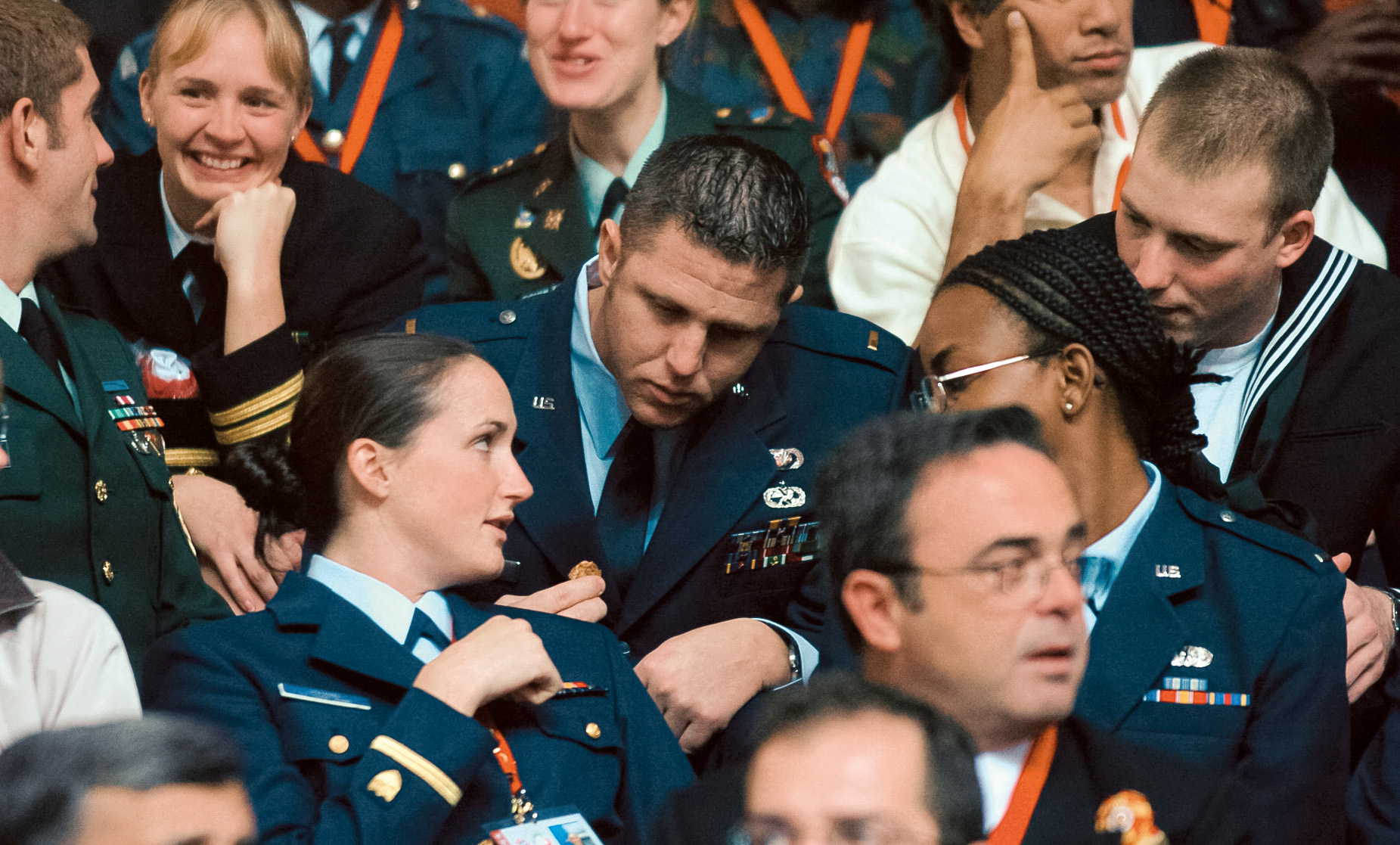 031206-N-6967M-006 The first time that any athletes wore a uniform at the 2003 Military World Games was during the closing ceremony. The rest of the time warm-ups with the country's name was the norm. The Military World Games in Catania, Italy consisted of 86 participating countries and are designed to promote "Peace through Sports.” Russia won the overall medal competition at the games with 108, including 39 gold. The United States, suffering from a lack of participation, was 18th with four medals. (All Hands, April 2004, pg. 17) Photo by Photographer's Mate 1st Class (AW) Shane T. McCoy. (RELEASED)